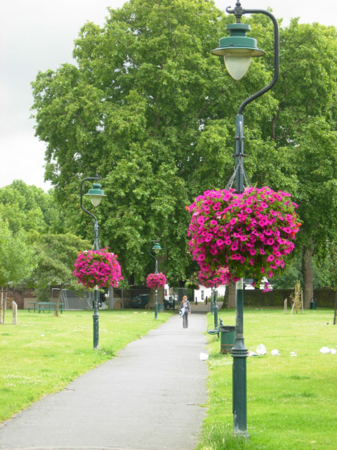 Geraldine Mary Harmsworth Park Geraldine Mary Harmsworth, Viscountess Rothermere, was the mother of Lord Rothermere, proprietor of the Daily Mail, who presented this land to the former London County Council in the 1920s for use as a public park; it was opened in 1934. It is now administered by the London Borough of Southwark.